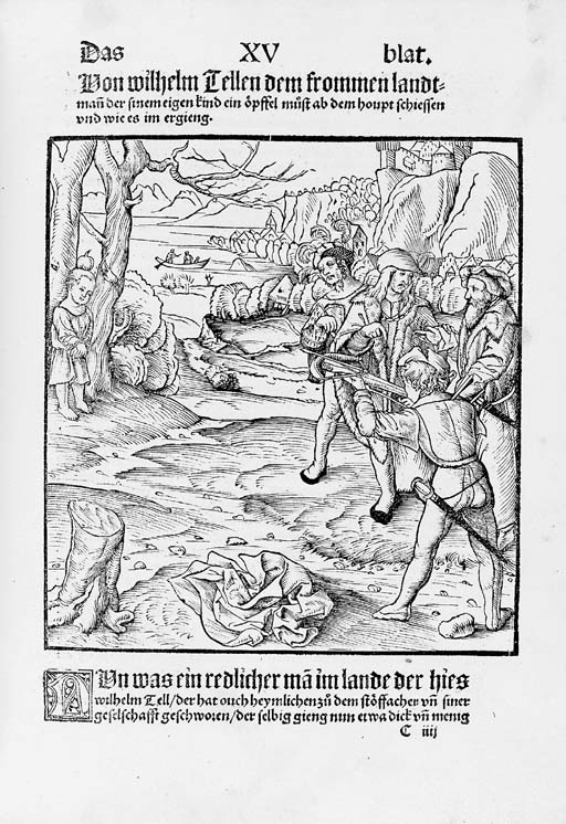 Woodcut of William Tell's apple-shot, woodcut from the 1507 edition of Etterlin's chronicle, 2° (259 x 190mm). This is the oldest dated depiction of the Tell legend.